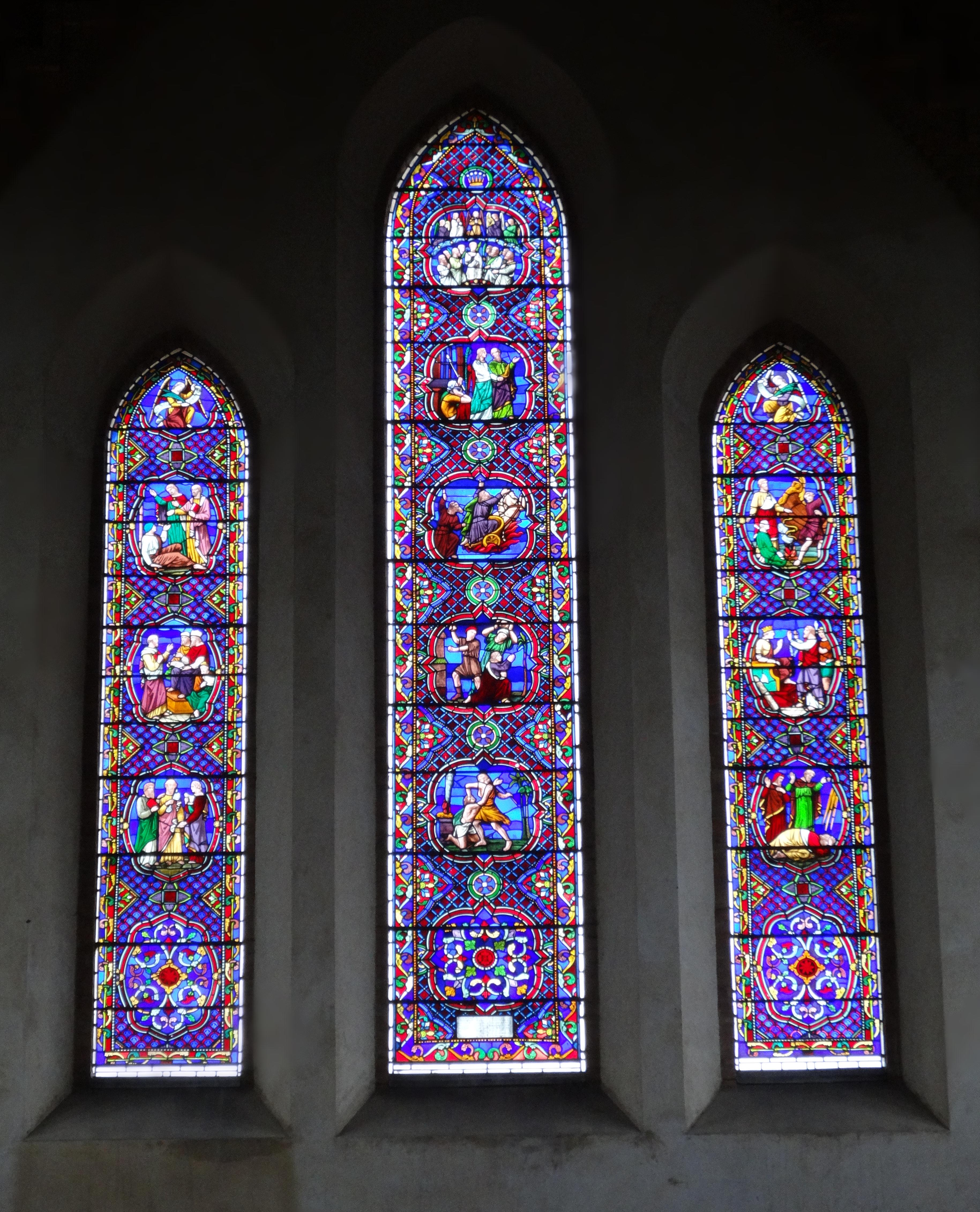 St Alban's Church, Teddington